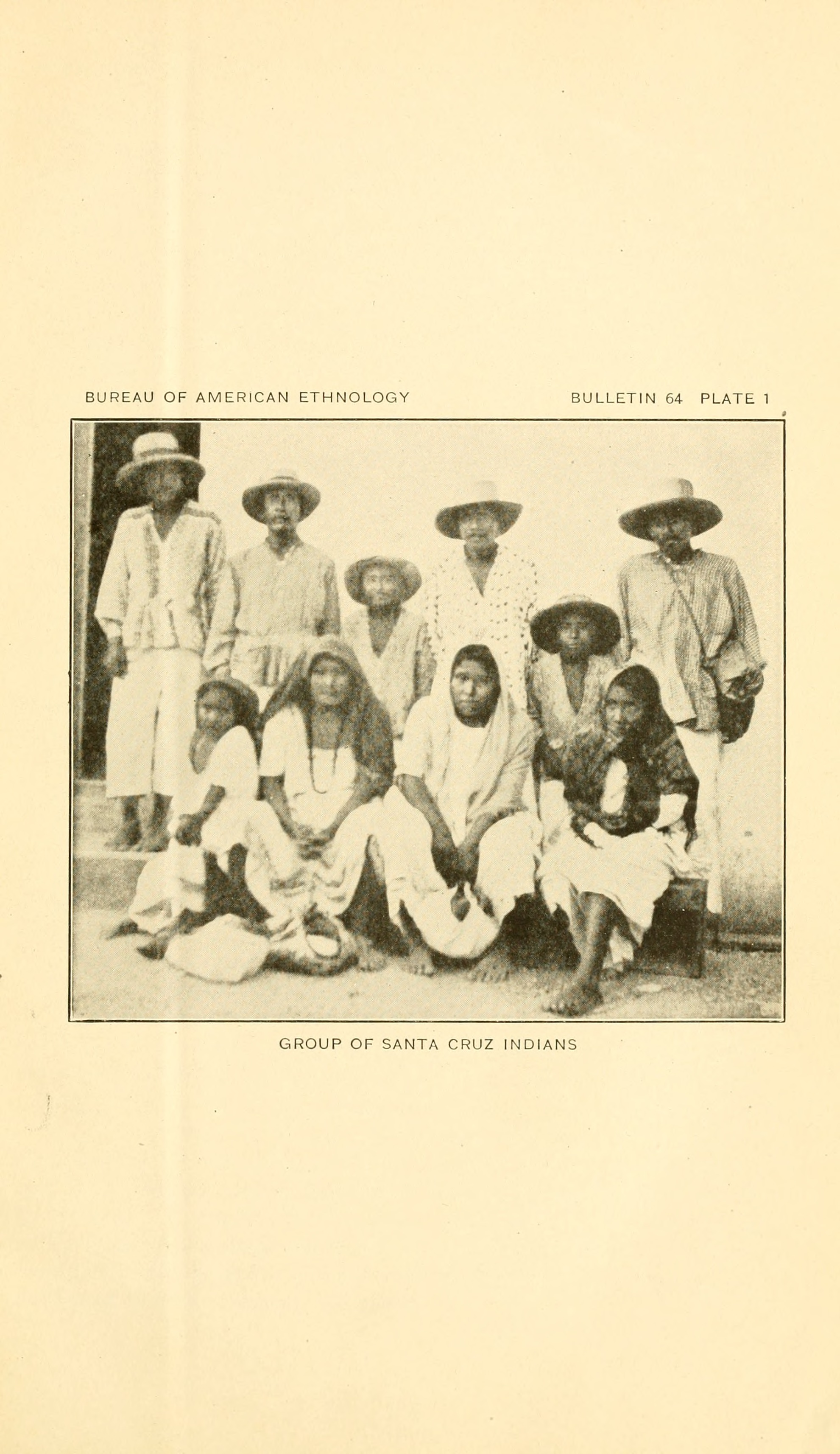 Photo from Gann's "The Maya Indians of southern Yucatan and northern British Honduras"